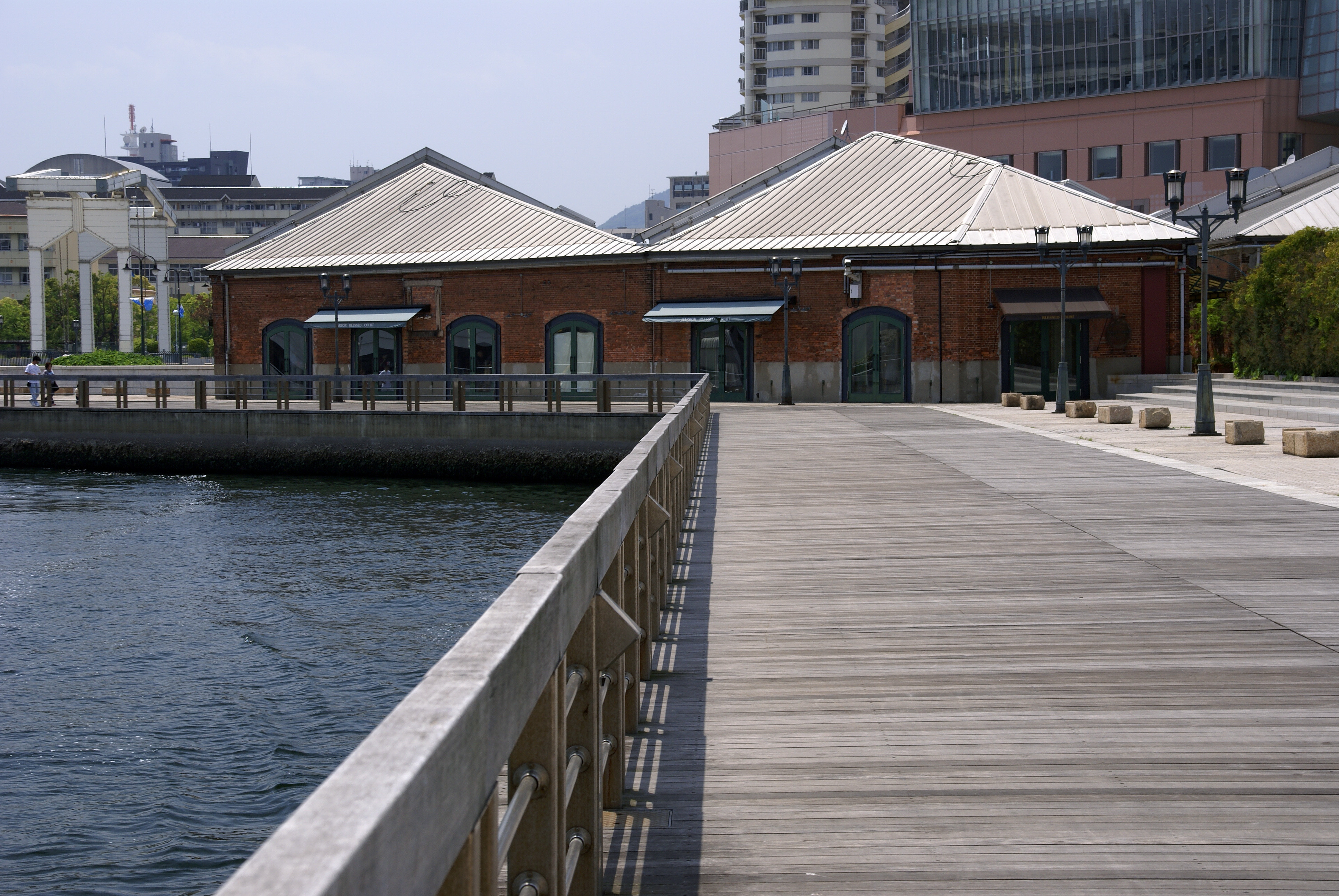 The Harborwalk in Harborland, Kobe, Hyogo prefecture, Japan